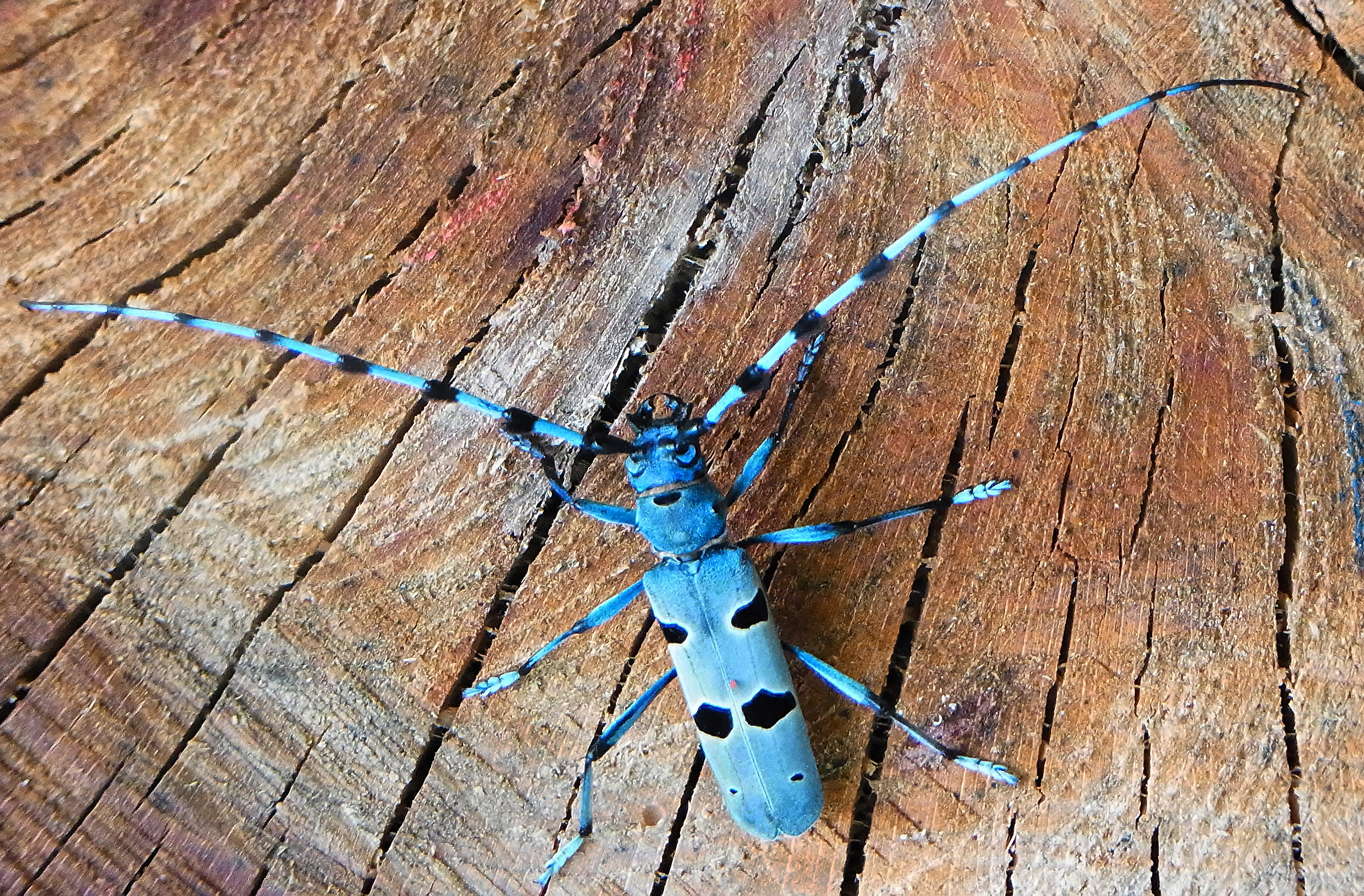 Rosalia alpina from Hungary at Mátra-mountains at 2012-07-04